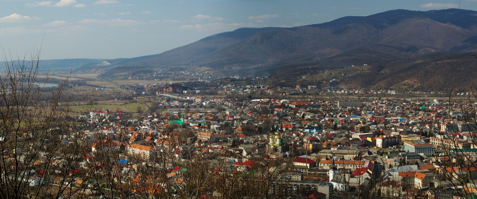 Panorama of Khust town, Zakarpattya from the castle hill.